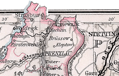 Detail from a map of Brandenburg.